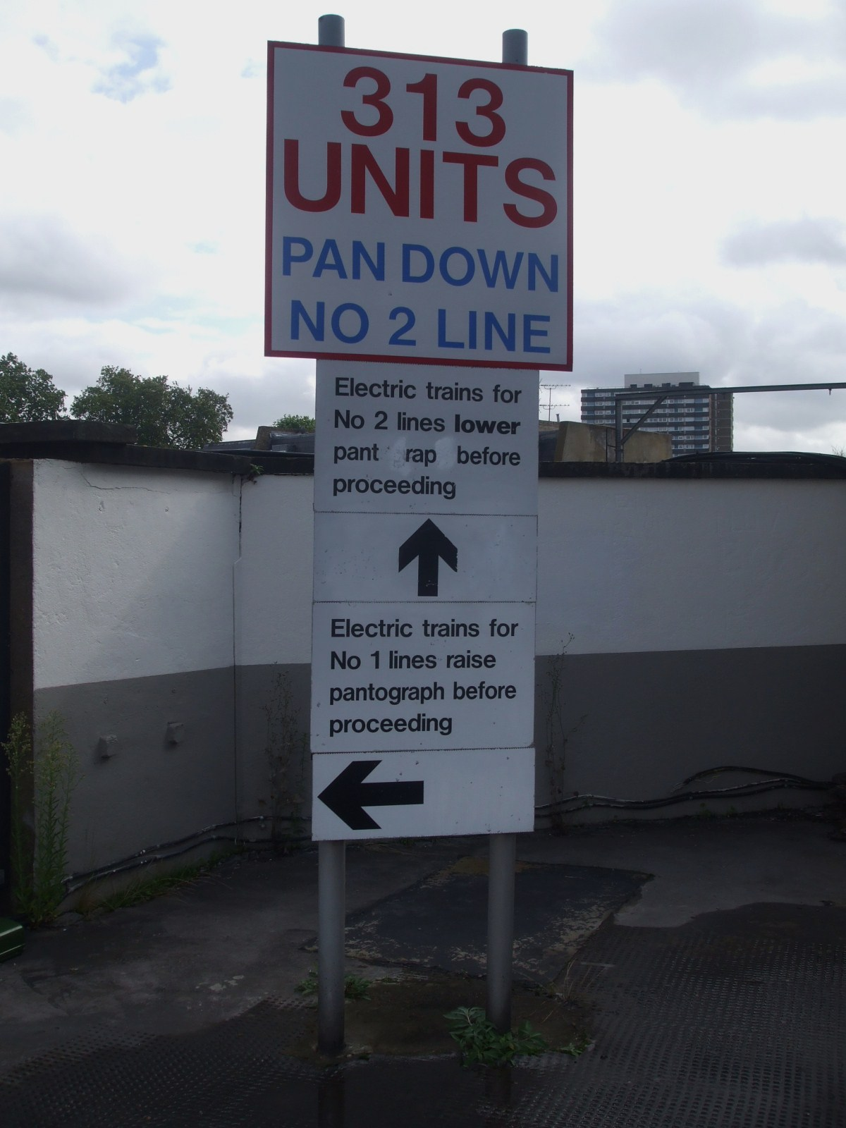 Sign at the eastern end of Camden Road station eastbound platform, warning drivers that there are two pairs of tracks ahead, the northern AC electrified pair normally used by freight and the North London Line tracks with DC third rail. Camden Road is one of the change-over points in AC/DC electrification along the North London Line (AC west, DC east of here). Camden Road once had four platforms, but the northern pair of tracks were lifted many years ago.